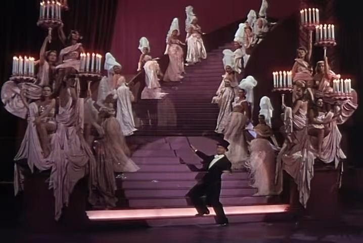 Georges Guétary (number I'll Build a Stairway to Paradise) in An American in Paris - trailer (cropped screenshot)